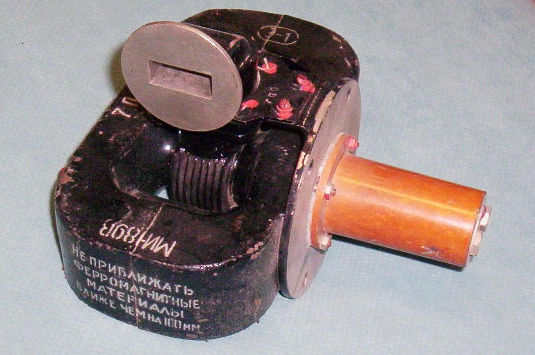 A Russian MI-189W magnetron tube from an obsolete aircraft radar. It generates a pulsed output at 9 GHz in the X band. The end of the tube with filament contacts projects inside the red pipe at right. The rest of the tube itself is concealed between the two powerful horseshoe-shaped alnico magnets that provide the magnetic field it requires to operate. The pole pieces of the magnets embrace each end of the tube, creating a magnetic field along the tubes axis. The microwaves produced radiate out of the rectangular waveguide aperture at top, which in use is attached to a waveguide which conducts the microwaves to the antenna. The text on the front side reads: "Do not bring ferromagnetic materials closer than 100 millimeters".